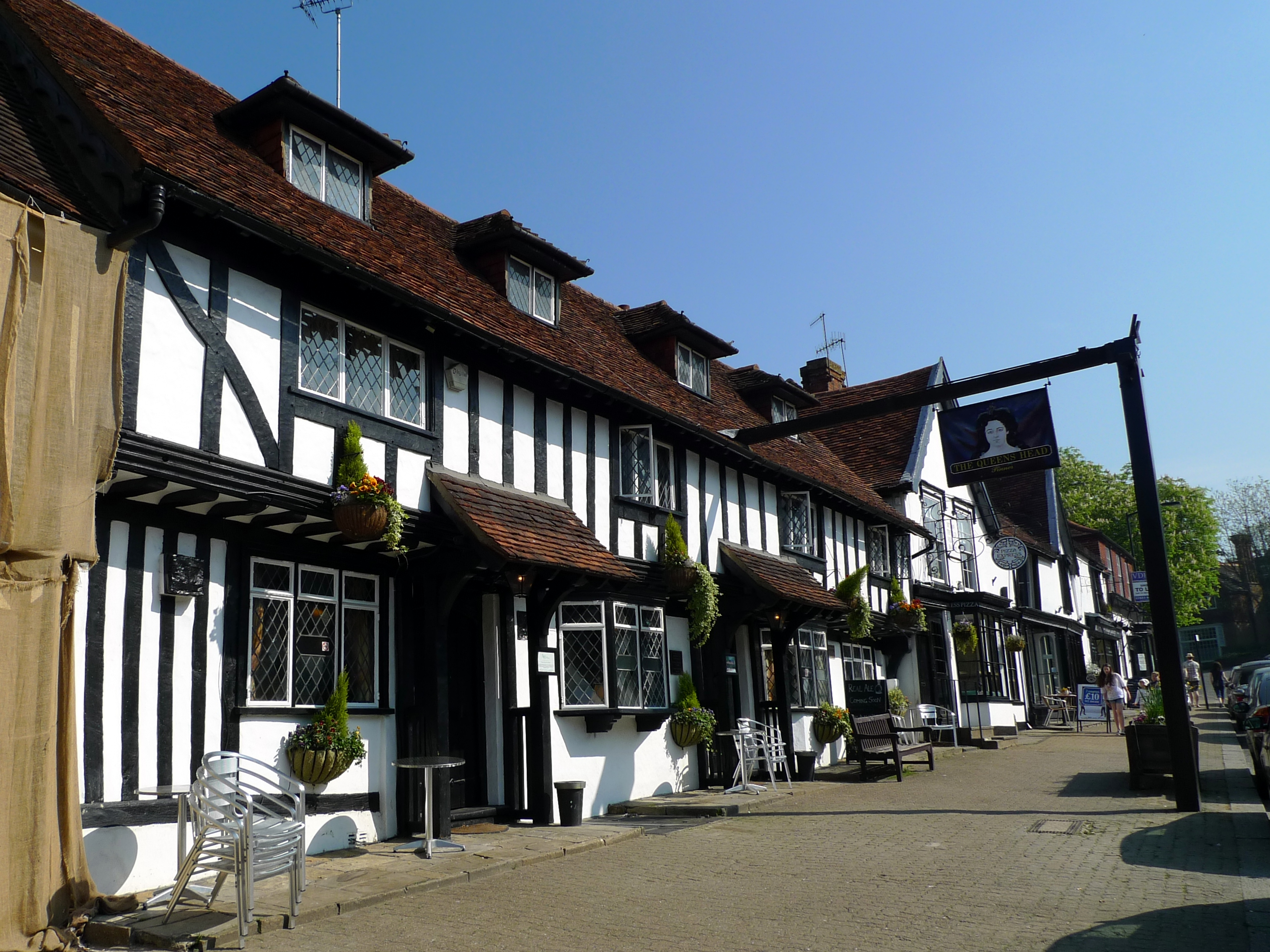 The oldest remaining pub, it still has its hanging sign on a gibbet. Nice place and good range of ales. Address: 31 High Street. Former Name(s): The Crown. Owner: Punch Taverns [Spirit Group] (website). Links: Randomness Guide to London Fancyapint Pubs Galore Beer in the Evening Dead Pubs (history)